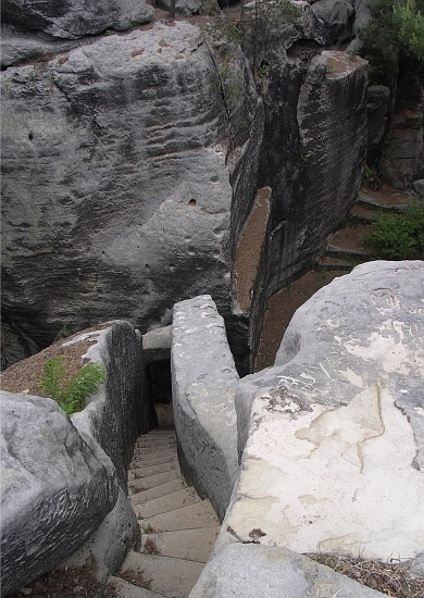 Dutý kámen, Lusatian Mountains, Czech Republic